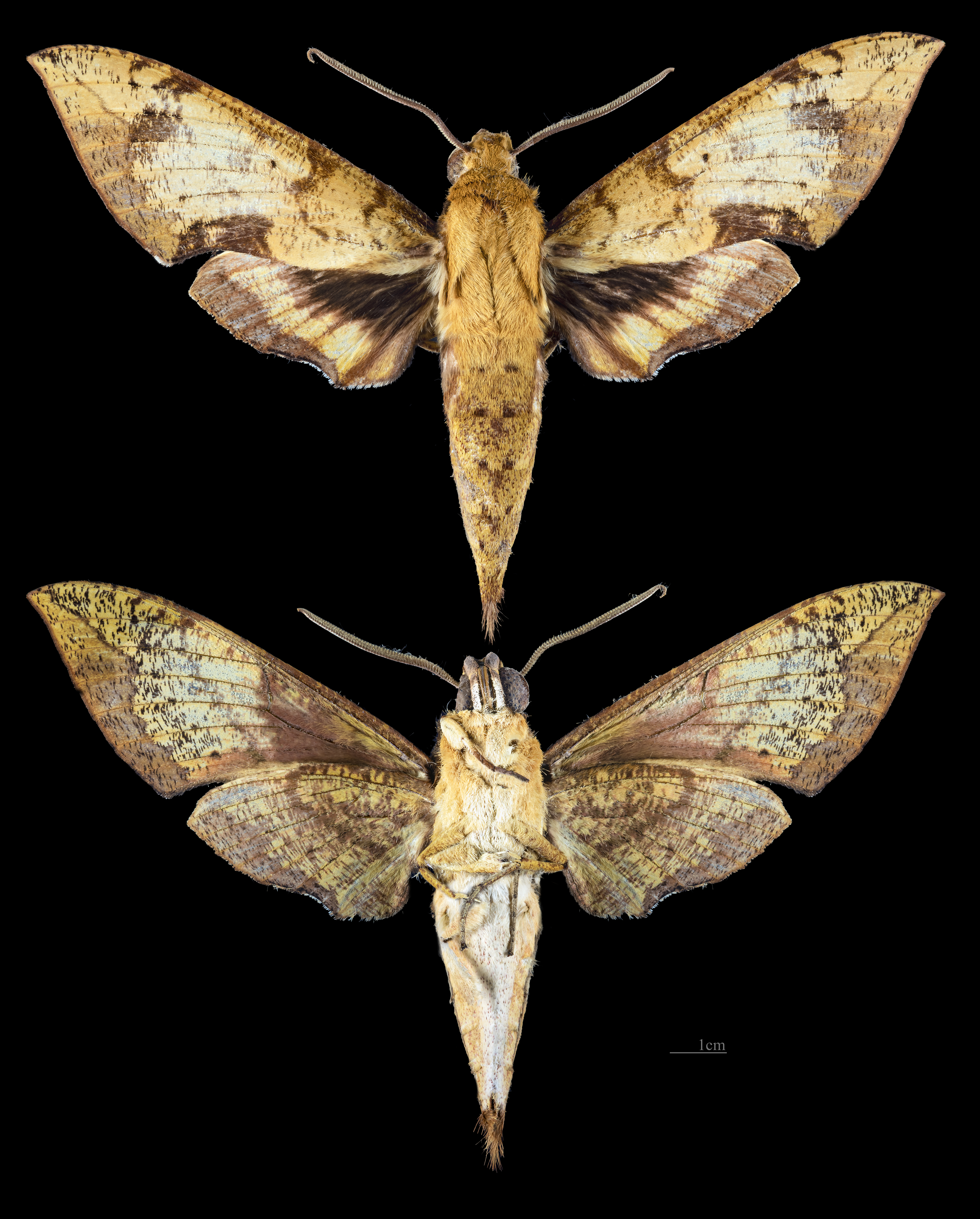 Cechenena transpacifica - Two views of same specimen Collection of the Mathematician Laurent Schwartz